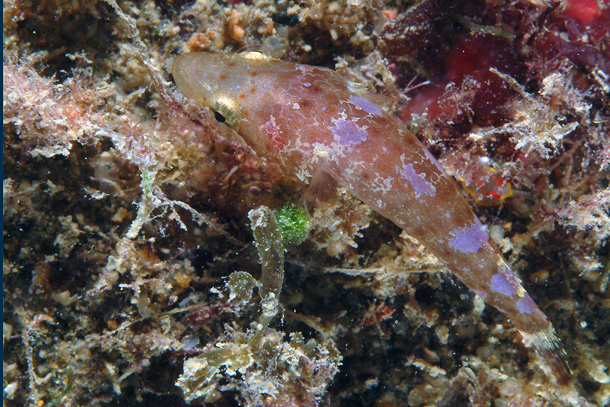 Apletodon incognitus photographed near Calafuria (Tuscany, Italy). Depth about 10 m. Photo by Stafano Guerrieri.